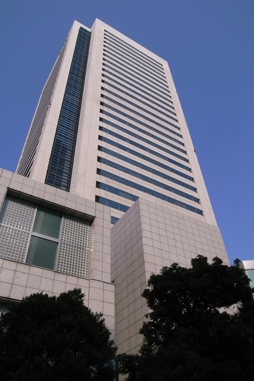 Mitsubishi heavy industries Yokohama building in MM21, Yokohama, Japan.